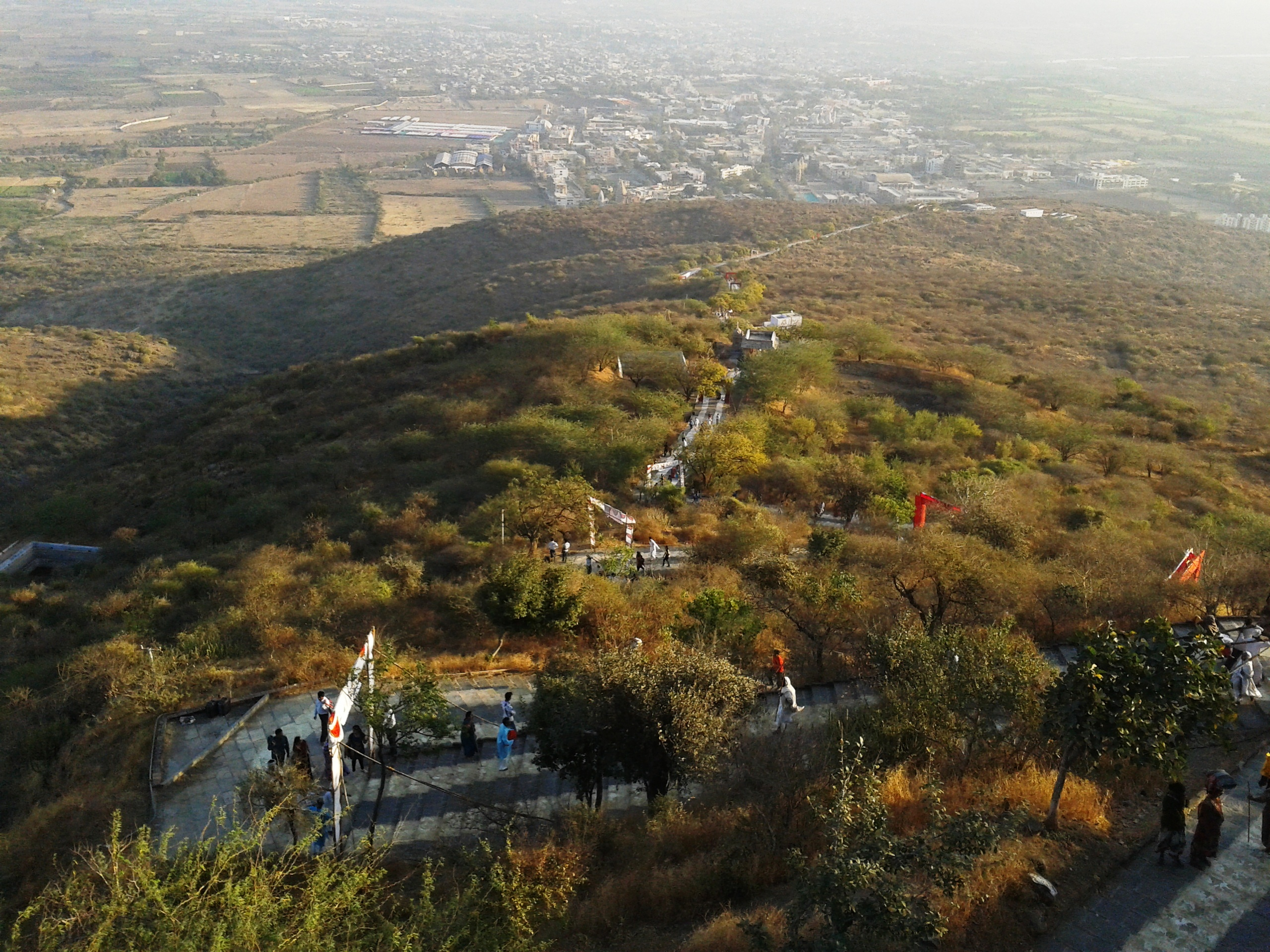 View of pilgrims ascending Satrujaya Hill with Palitana Town in the Background